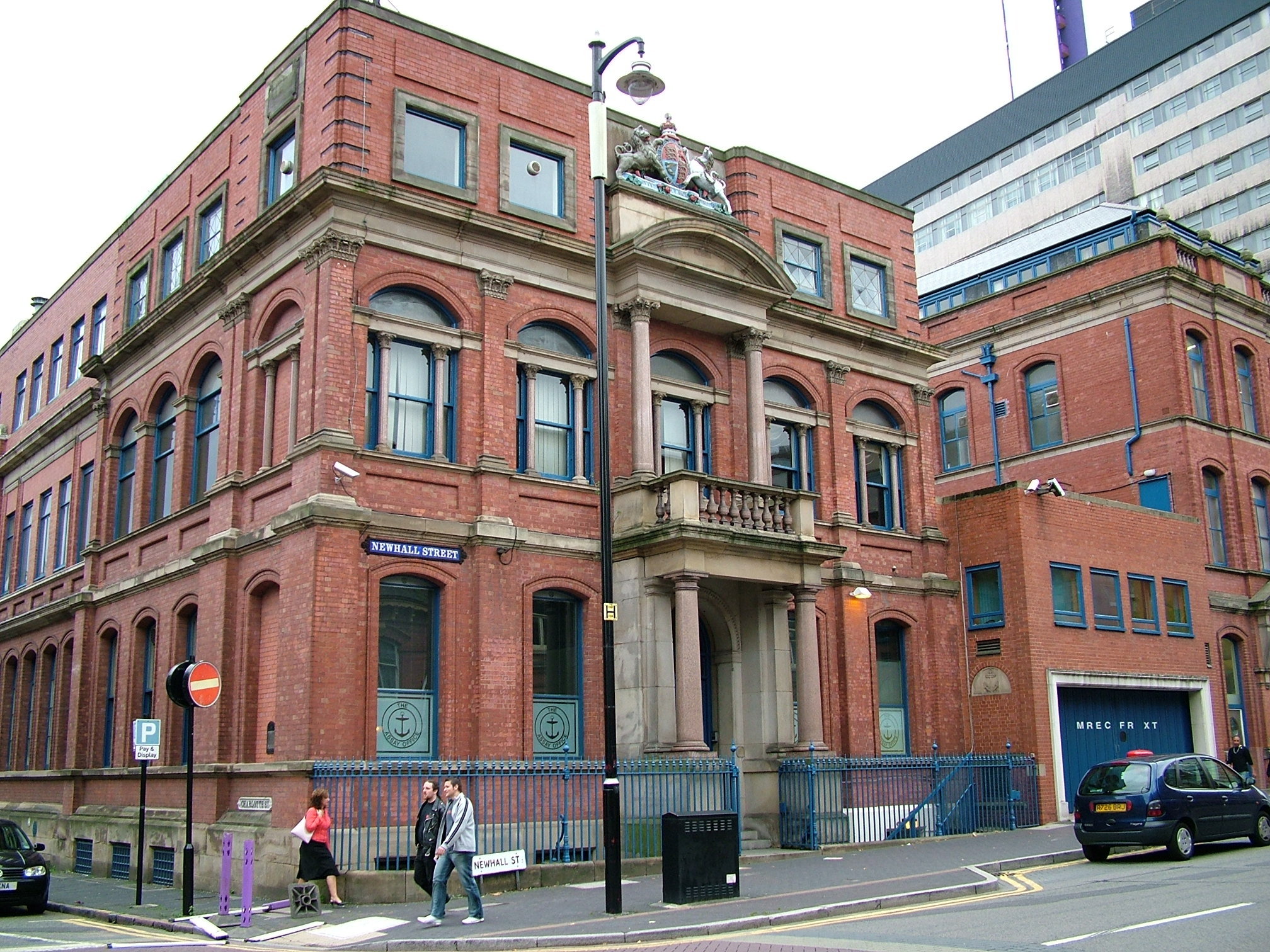 Birmingham Assay Office - Newhall Street - Birmingham, UK. Photo by and copyright Tagishsimon, 13th October 2005